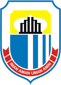 Emblem of Lebak Regency, Banten.